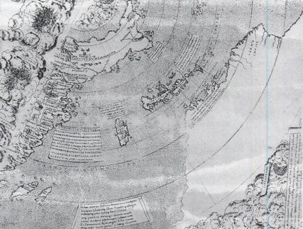 The Contarini map (1506), first printed map showing the Americas; detail showing Cuba, Zipangu (Japan), and Asia